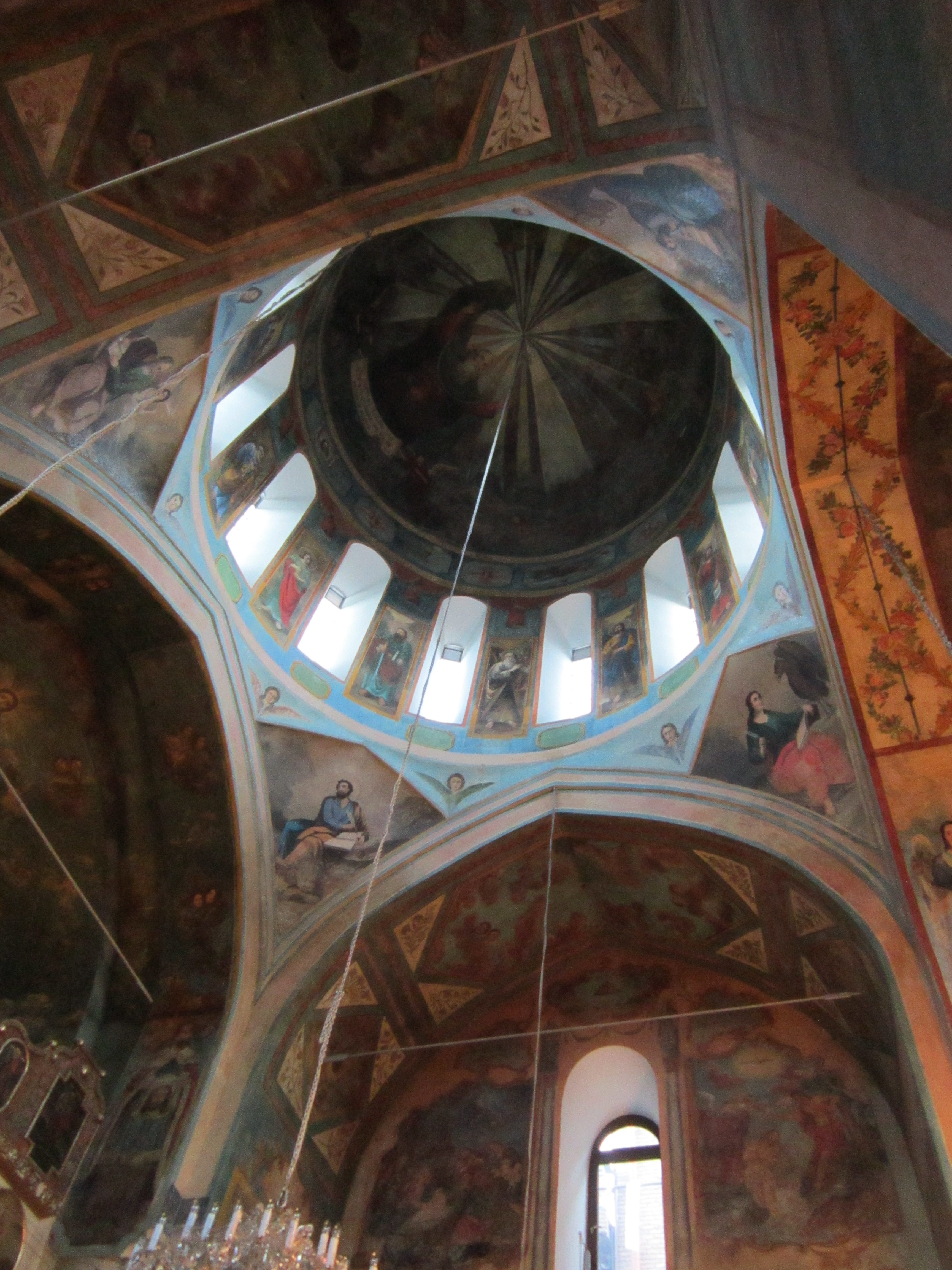 St Gevorg Armenian church in Tbilisi (interior)